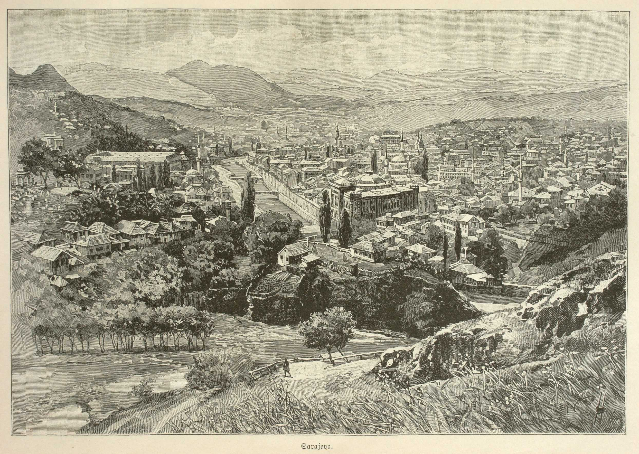 View on Sarajevo, approx. 1900.